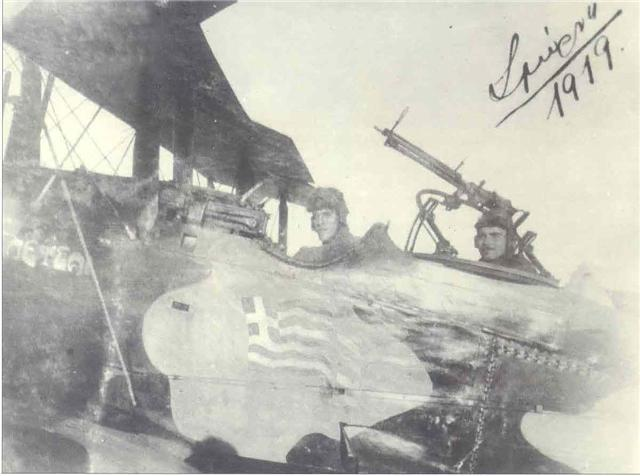 Airco De Havilland D.H.9 bomber in Izmir/Smyrna (1919) 'Spetsai' of the Hellenic Navy Air Service, equiped with Vickers and Lewis guns.